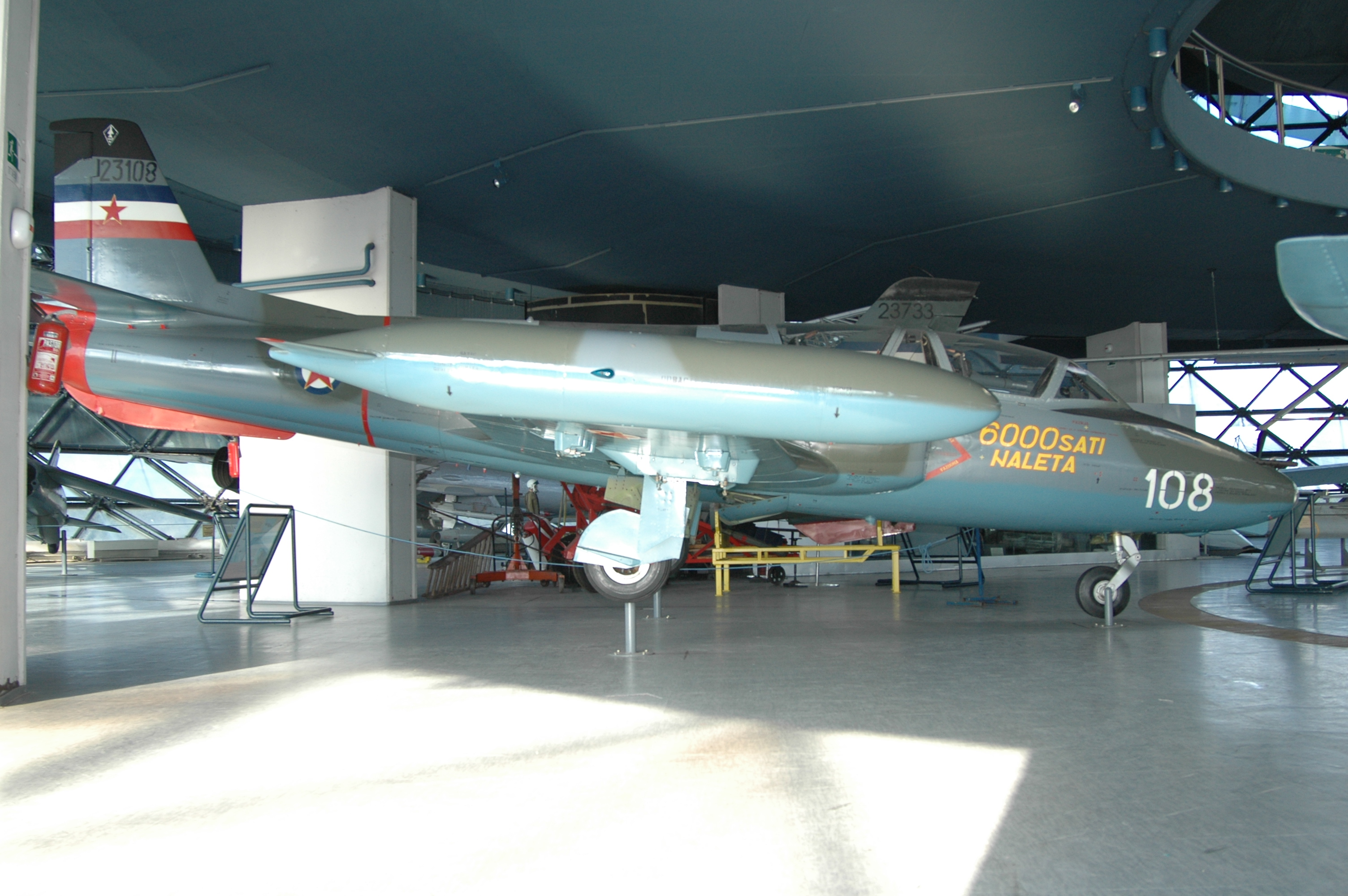 Soko N-60 Galeb